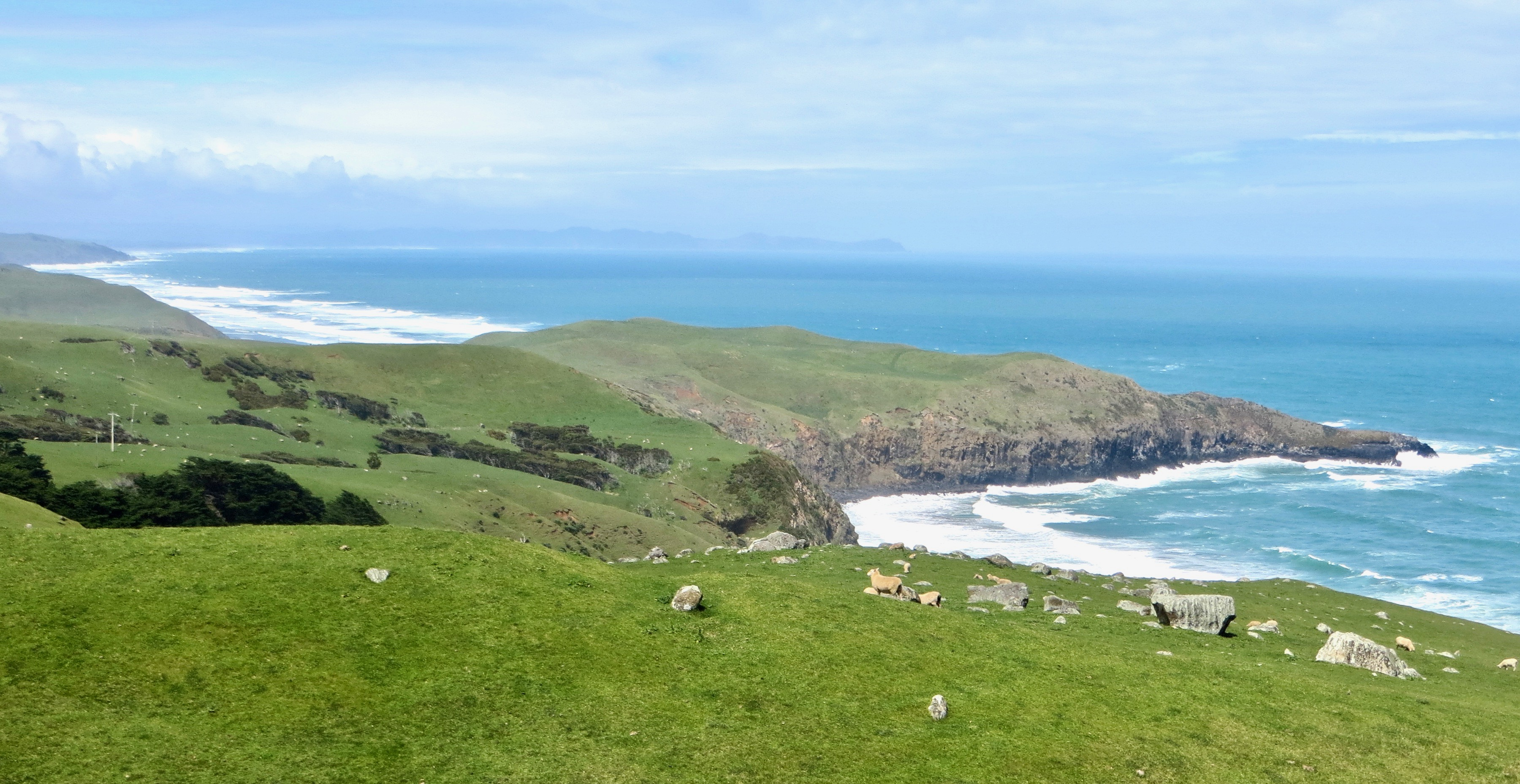 View from Whaanga Rd